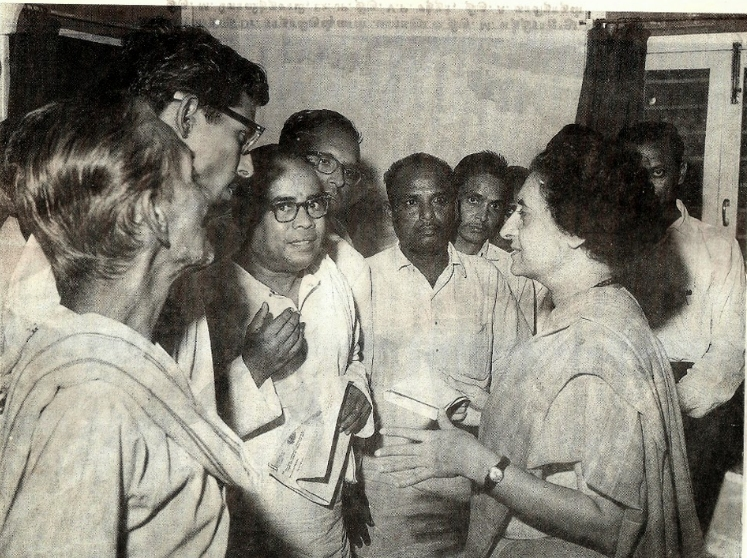 Prime minister indiragandhi with Ethiraj.